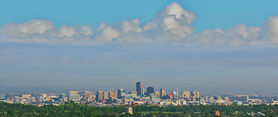 Adelaide panorama